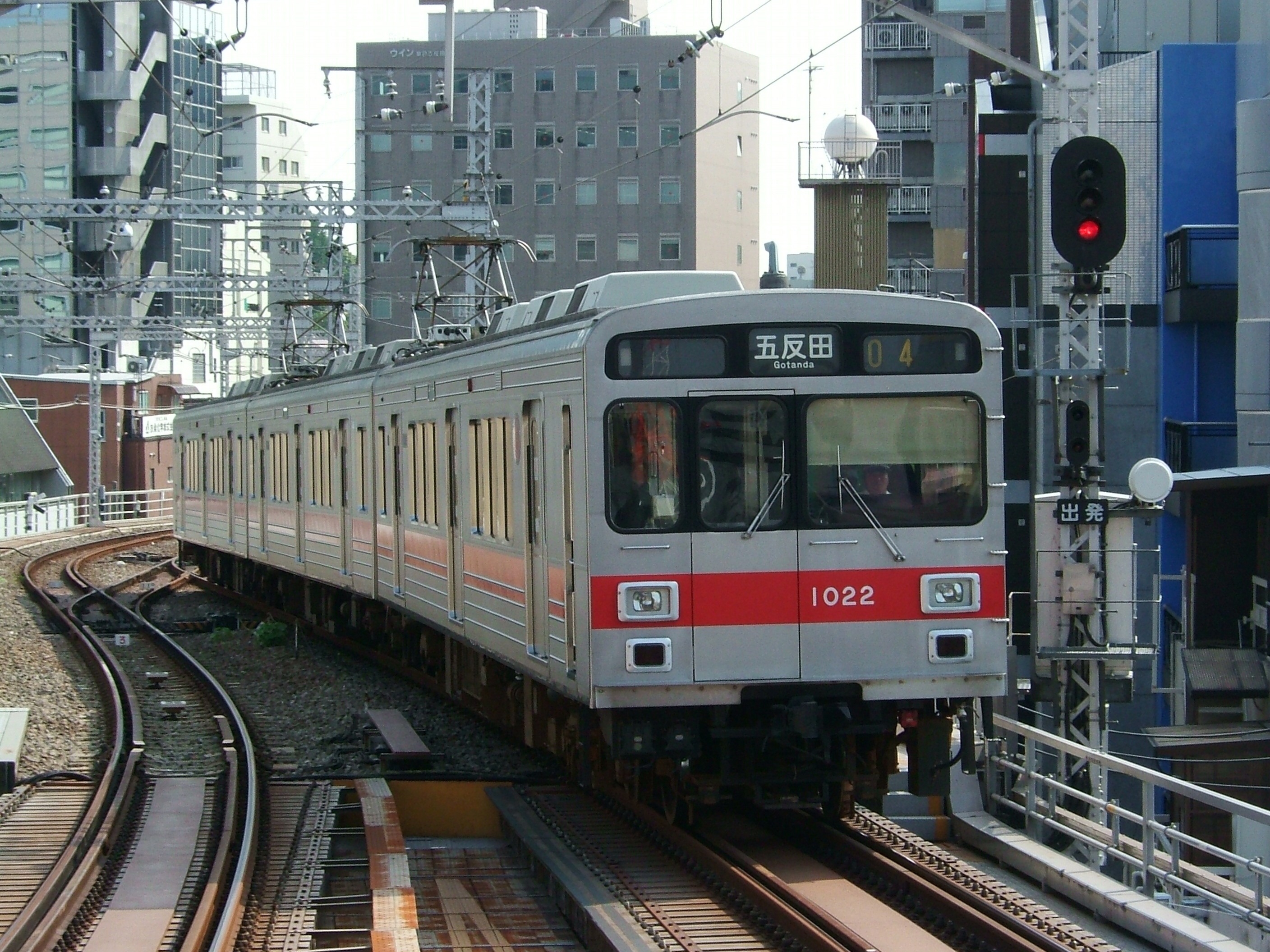 Tokyo Kyuko Electric Railway type 1000